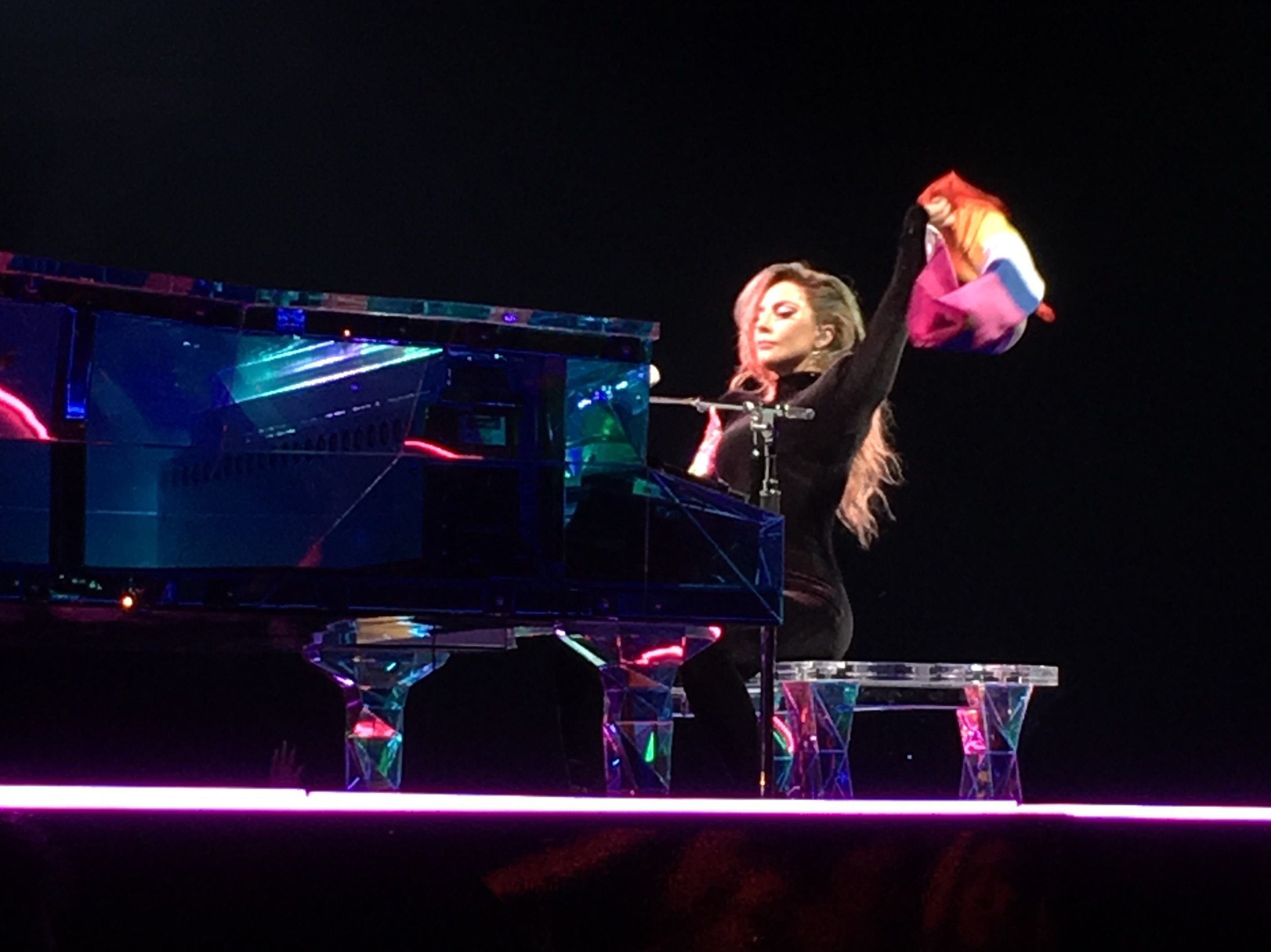 Lady Gaga with Rainbow Flag - Tacoma, WA